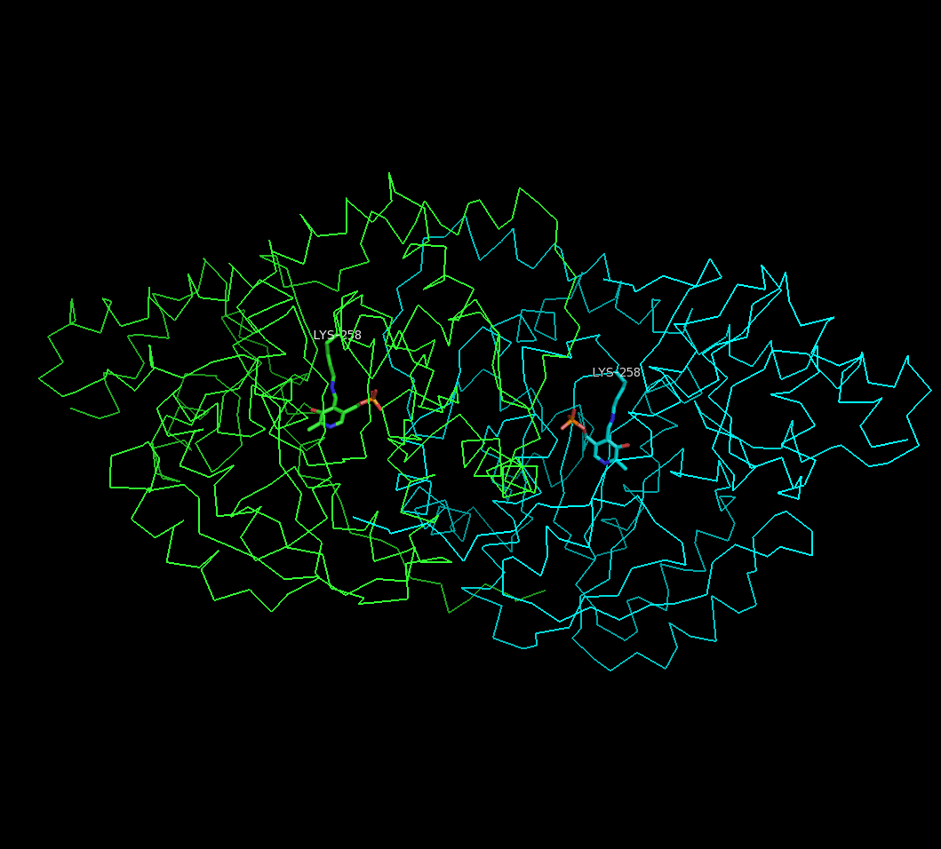 Aspartate aminotransferase, from Gallus gallus (chicken heart mitochondria), with pyridoxal phosphate (PLP) cofactors. The two dimers are highlighted in green and blue, and the PLP binding sites (Lys258) are labeled.